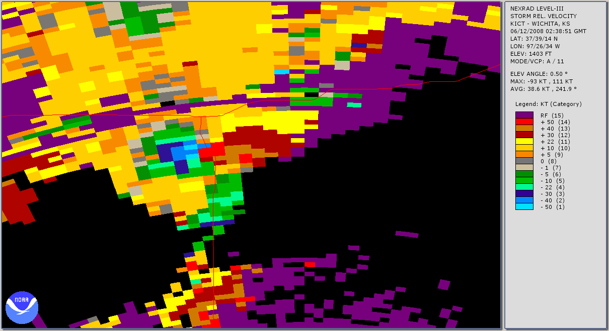 Wichita radar's storm relative motion of the a tornado-producing mesocyclone over Salina, Kansas on June 11, 2008. Blue/green shades are winds moving towards the radar (to the south-southeast), while red/yellow shades are winds moving away from the radar.